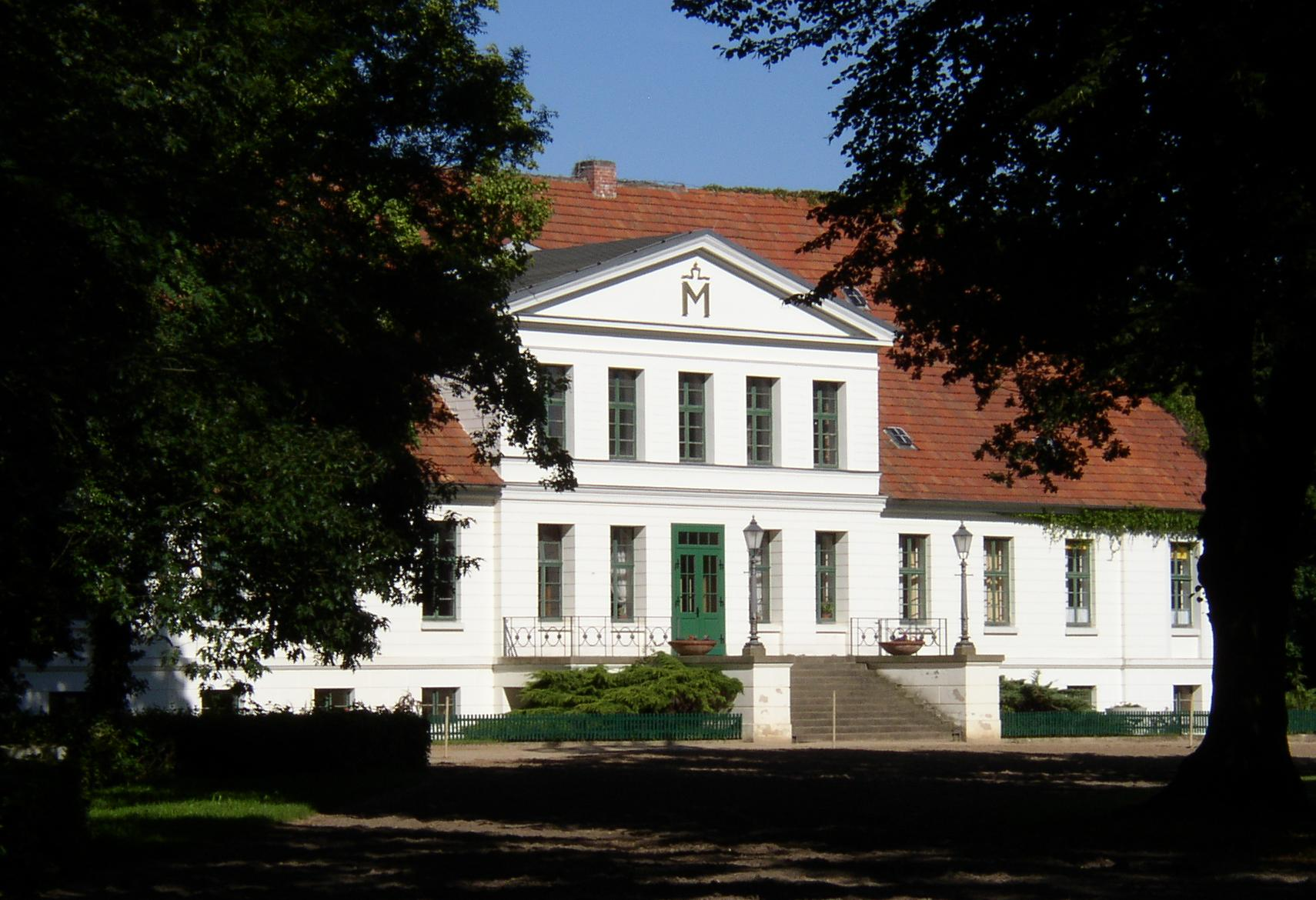 Headquarters of state stud farm in Redefin in Mecklenburg-Western Pomerania, Germany